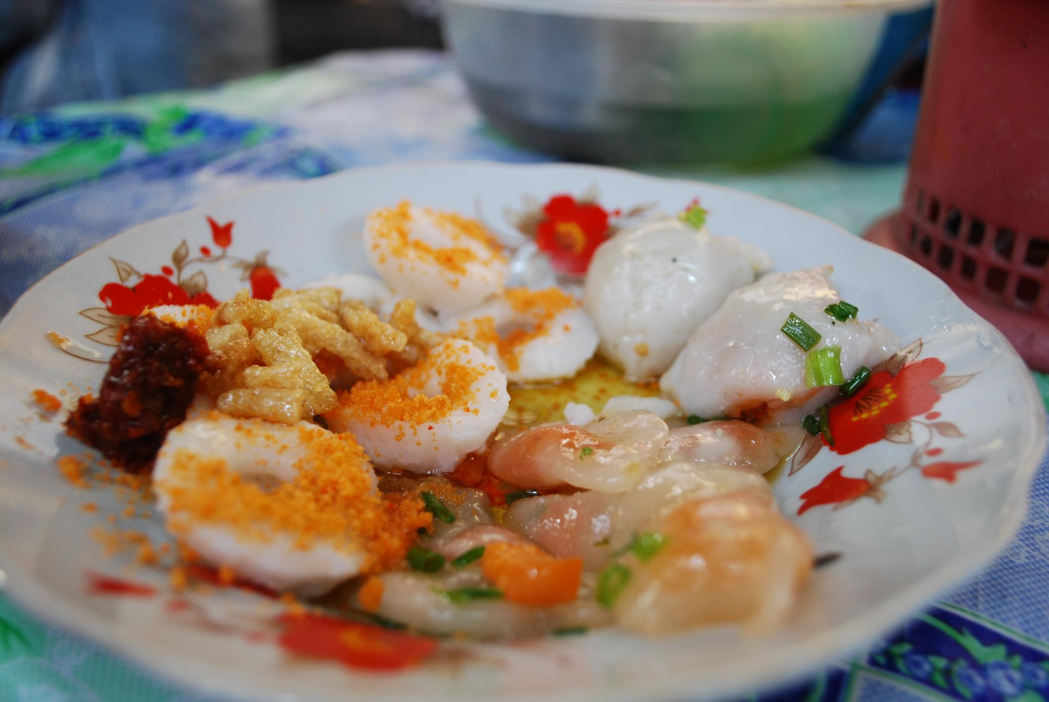 Various Vietnamese cakes and dumplings - bánh bèo (small steamed savory rice cakes, topped with minced dried shrimp), bánh ít trần (small stuffed glutinous rice flour balls), bánh bột lọc trần (translucent dumplings made with chewy tapioca starch having slice of fatty pork belly and a soft-shelled shrimp).